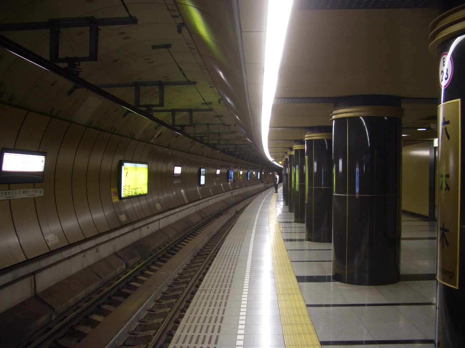 Platform 1 of Ōedo Line, Roppongi Station